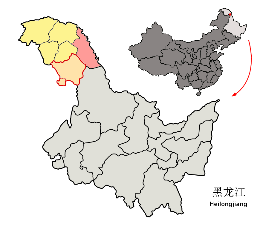 Location of Huma County (pink) and Daxing'anling Prefecture (yellow) within Heilongjiang Province of China. Jiagedaqi and Songling Districts (light salmon), under Heilongjiang administration, nominally belong to Inner Mongolia. Map drawn in november 2007 using various sources, mainly : Heilongjiang Province administrative regions GIS data: 1:1M, County level, 1990 Heilongjiang Counties map from Map of Daxing'anling Prefecture